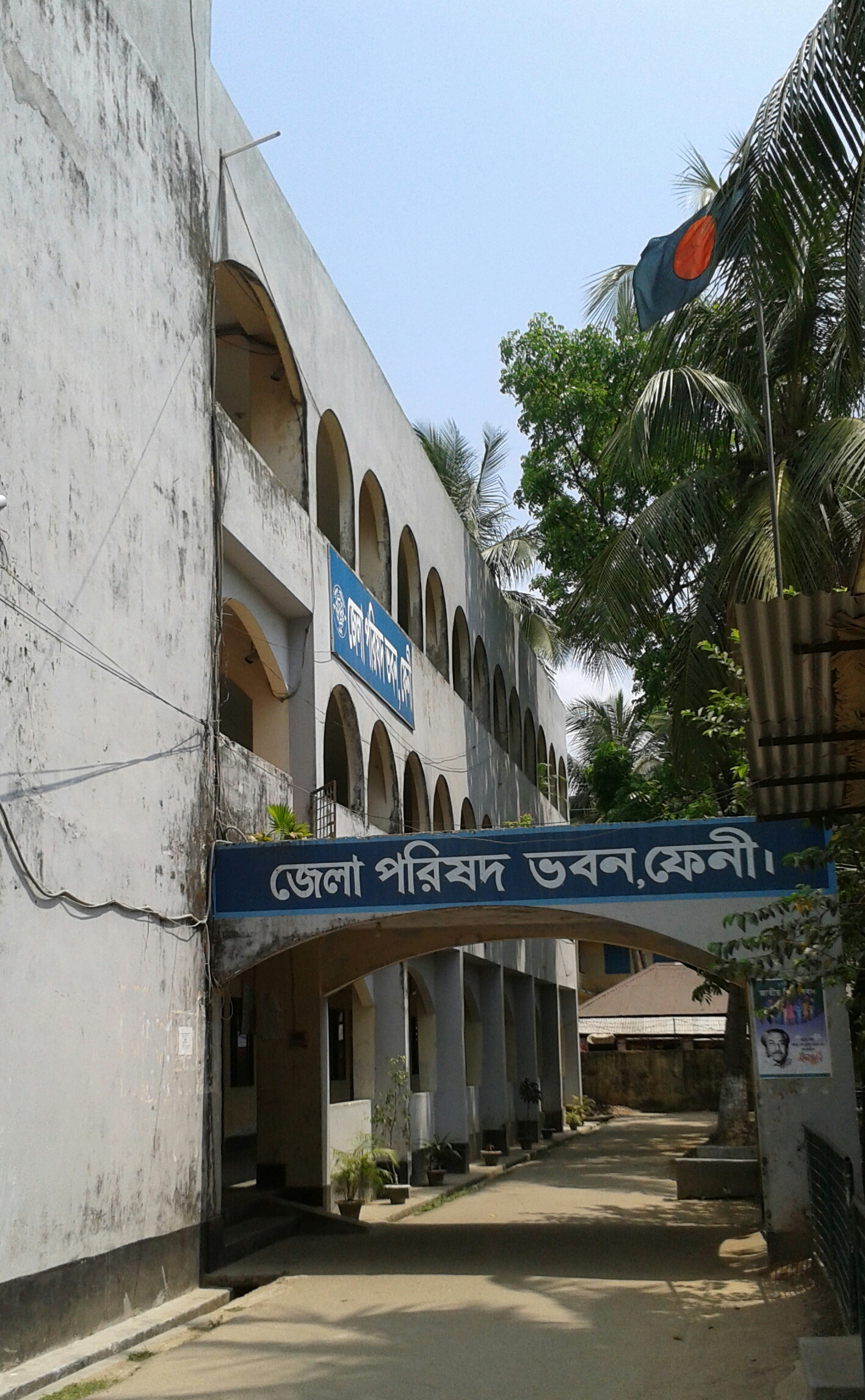 Feni District/Jela Parishad Building